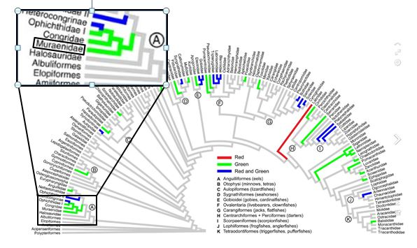 Muranidae's place on phylogenetic tree.